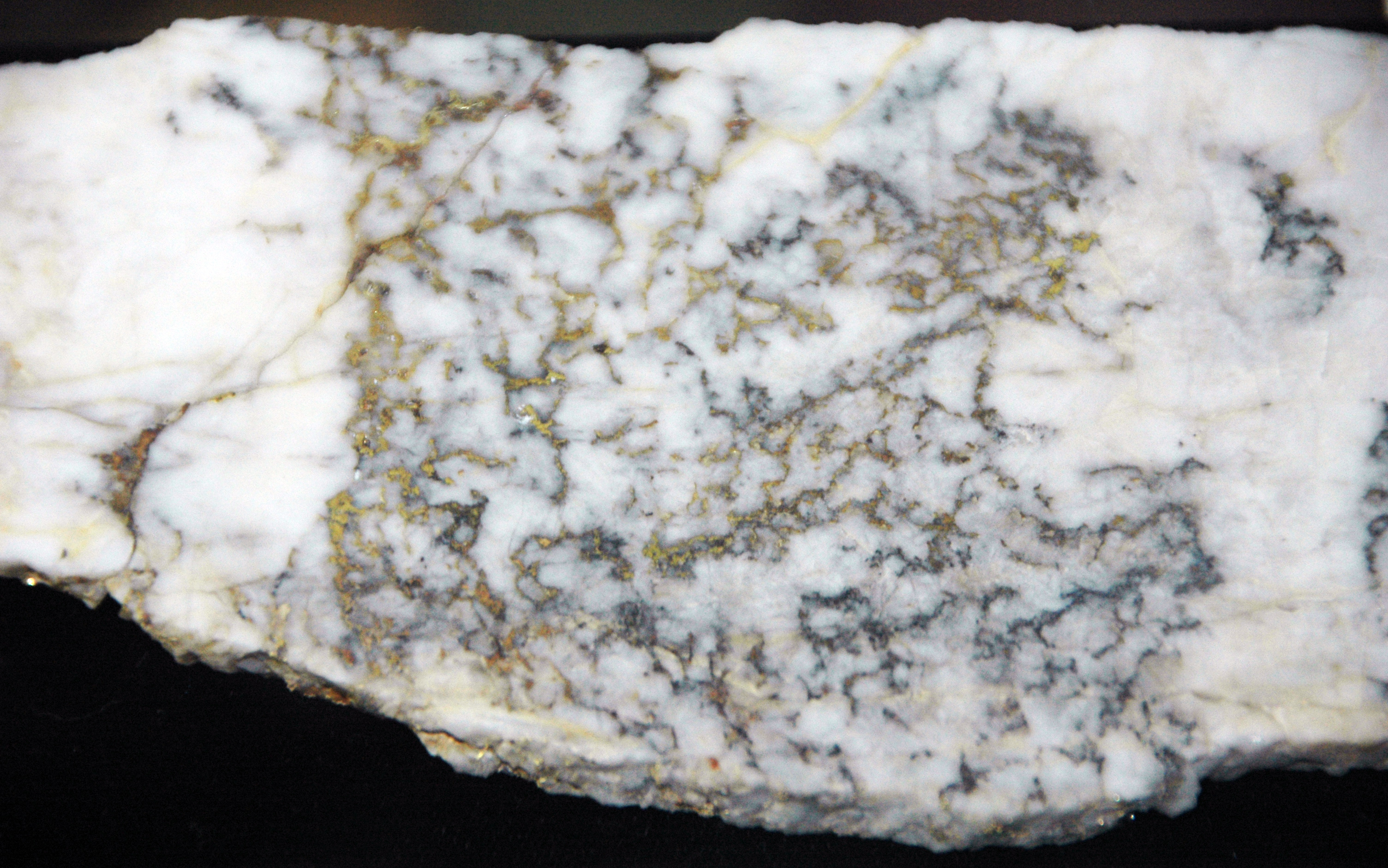 Gold-quartz-sulfide hydrothermal vein from the Tertiary of Colorado, USA. (public display, Leadville Mining Museum, Leadville, Colorado, USA) This is a gold ore sample from the Camp Bird Mine in southwestern Colorado's San Juan Mountains. The mineralization here occurs in hydrothermal veins hosted in Tertiary volcanic rocks. The whitish material is quartz (SiO2). The deep metallic yellow-colored material is native gold (Au). The dark gray material is sulfide. Locality: Camp Bird Mine, near Ouray, San Juan Mountains, southwestern Colorado, USA